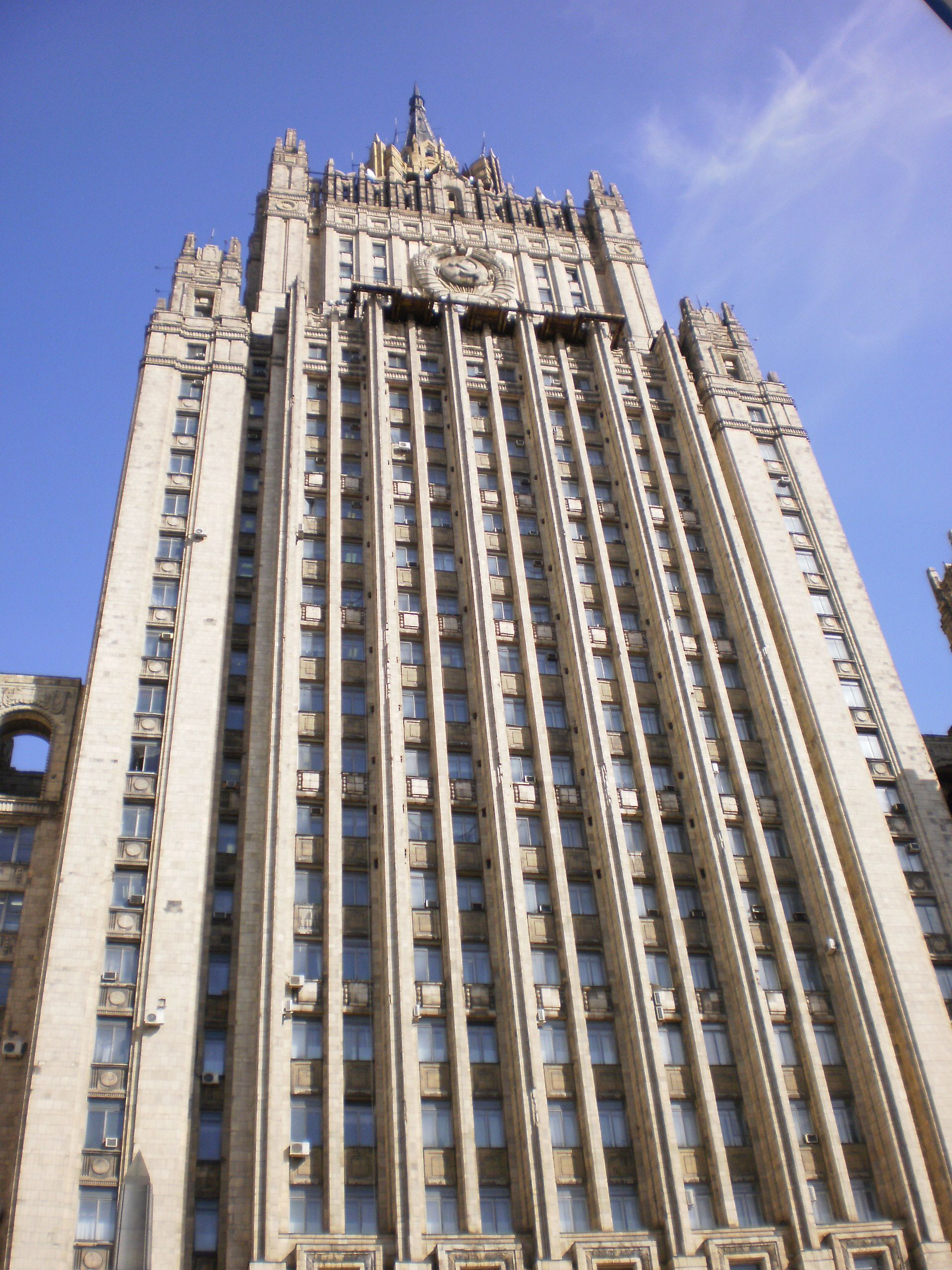 Ministry of Foreign Affairs in Moscow